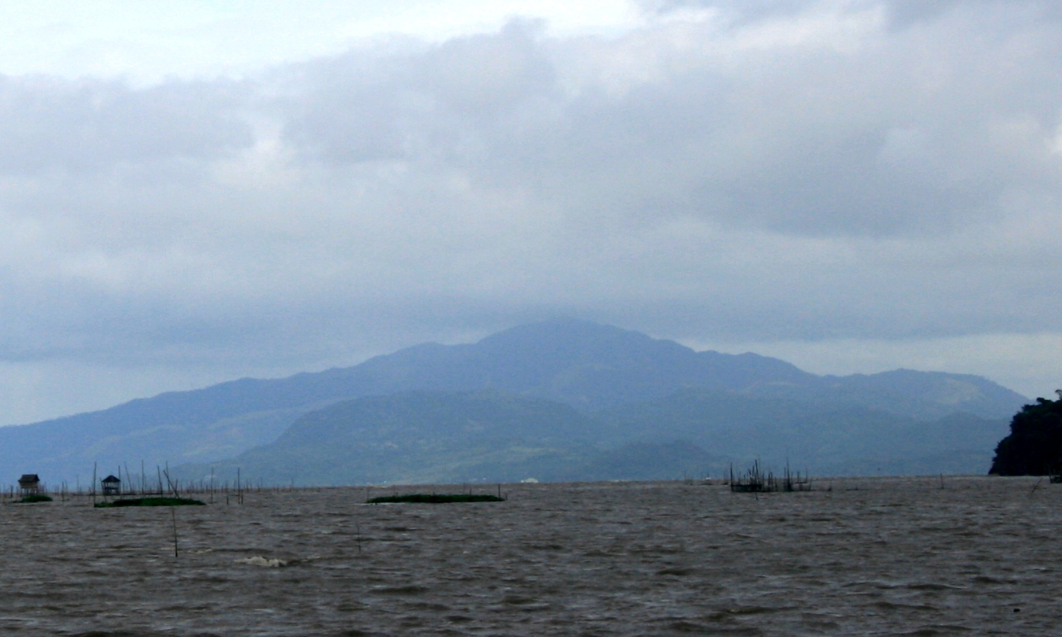 Mount Sembrano viewed from the coast of Los Baños Laguna